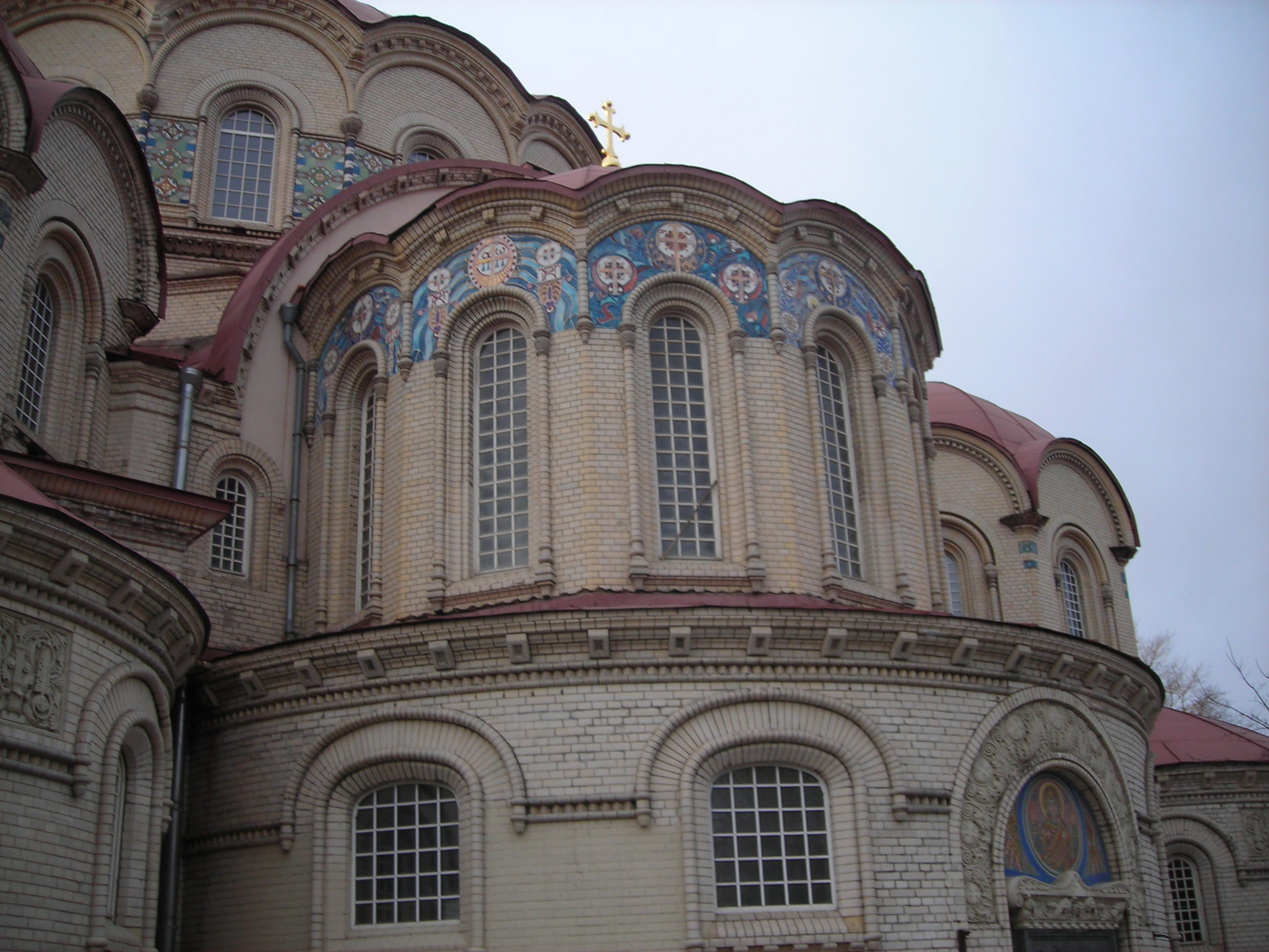 Apse of Kazan church in Voskresensky Novodevichy monastery